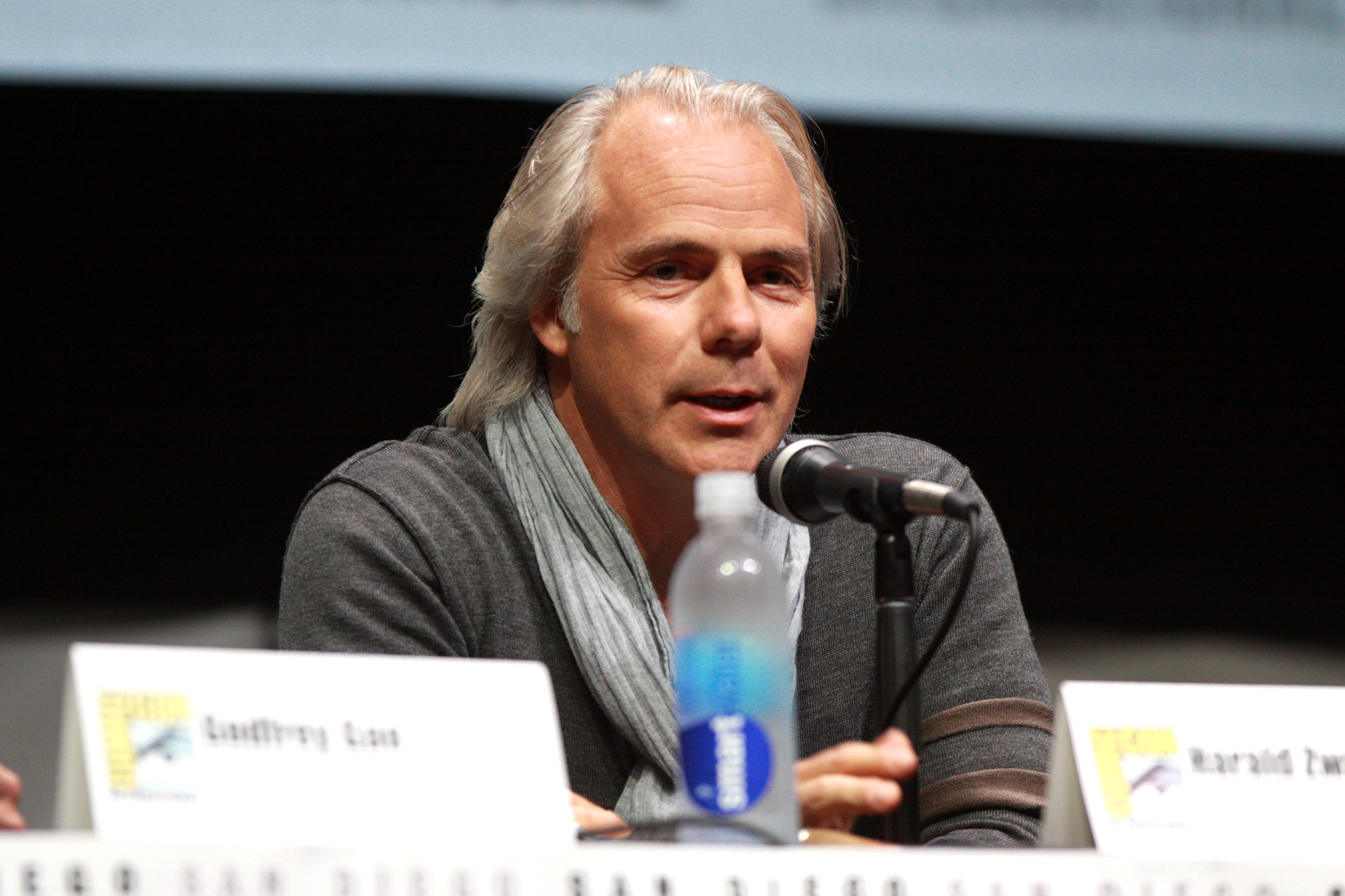 Harald Zwart speaking at the 2013 San Diego Comic-Con International, for The Mortal Instruments: City of Bones, at the San Diego Convention Center in San Diego, California